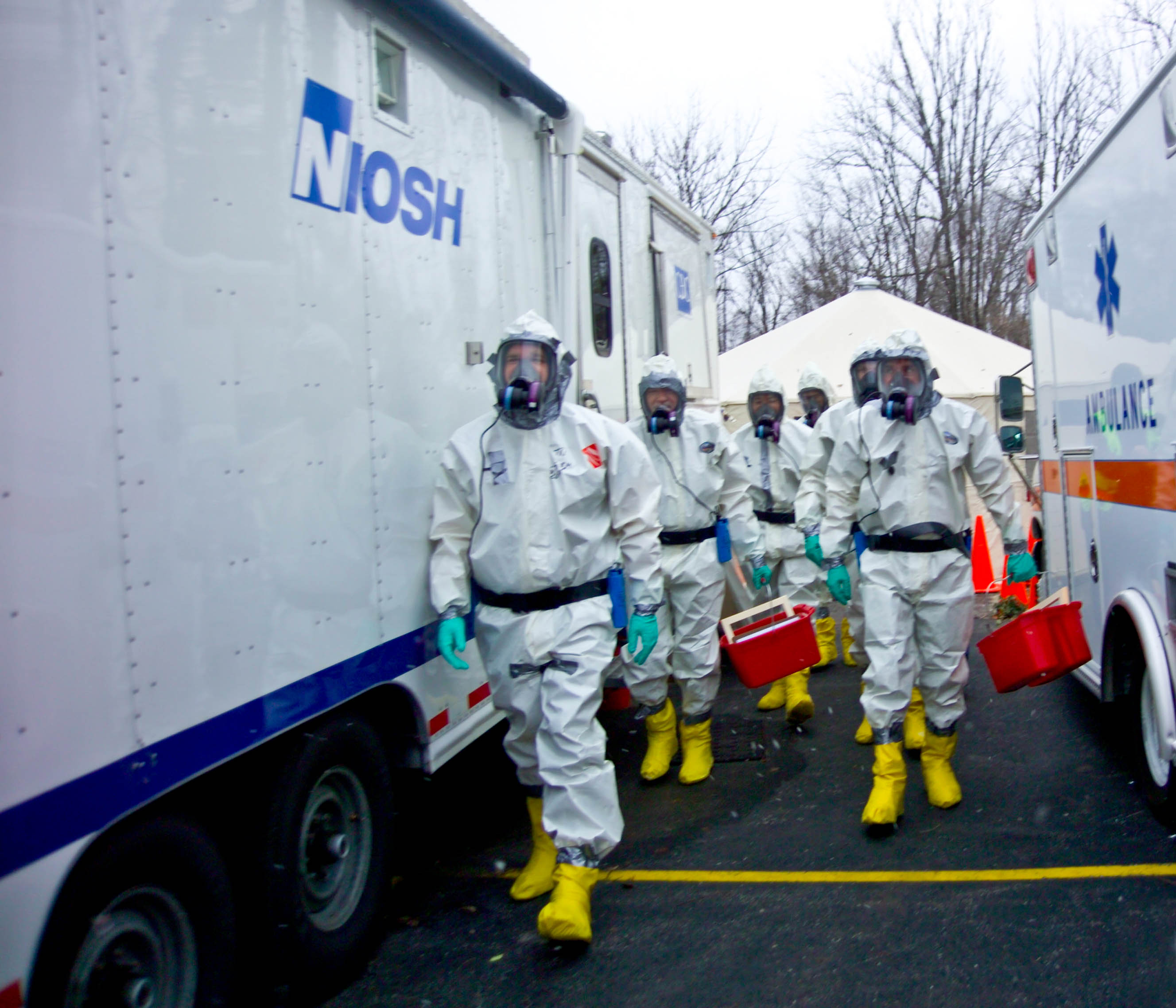 Team of emergency responders simulating a scenario of anthrax discovered in an office complex.